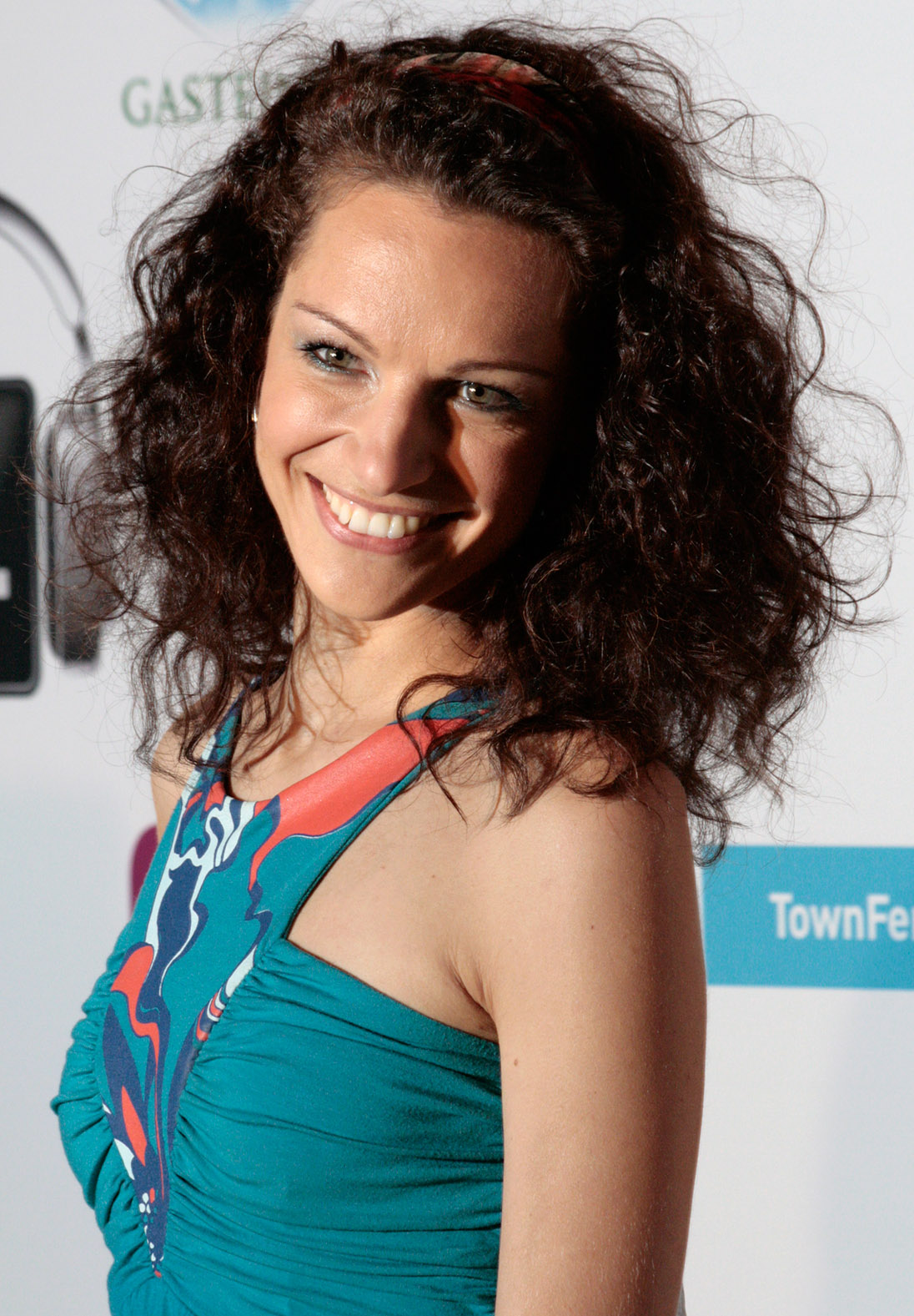 TV presenter Eva K. Anderson at the Amadeus Austrian Music Award (Museumsquartier, Vienna)